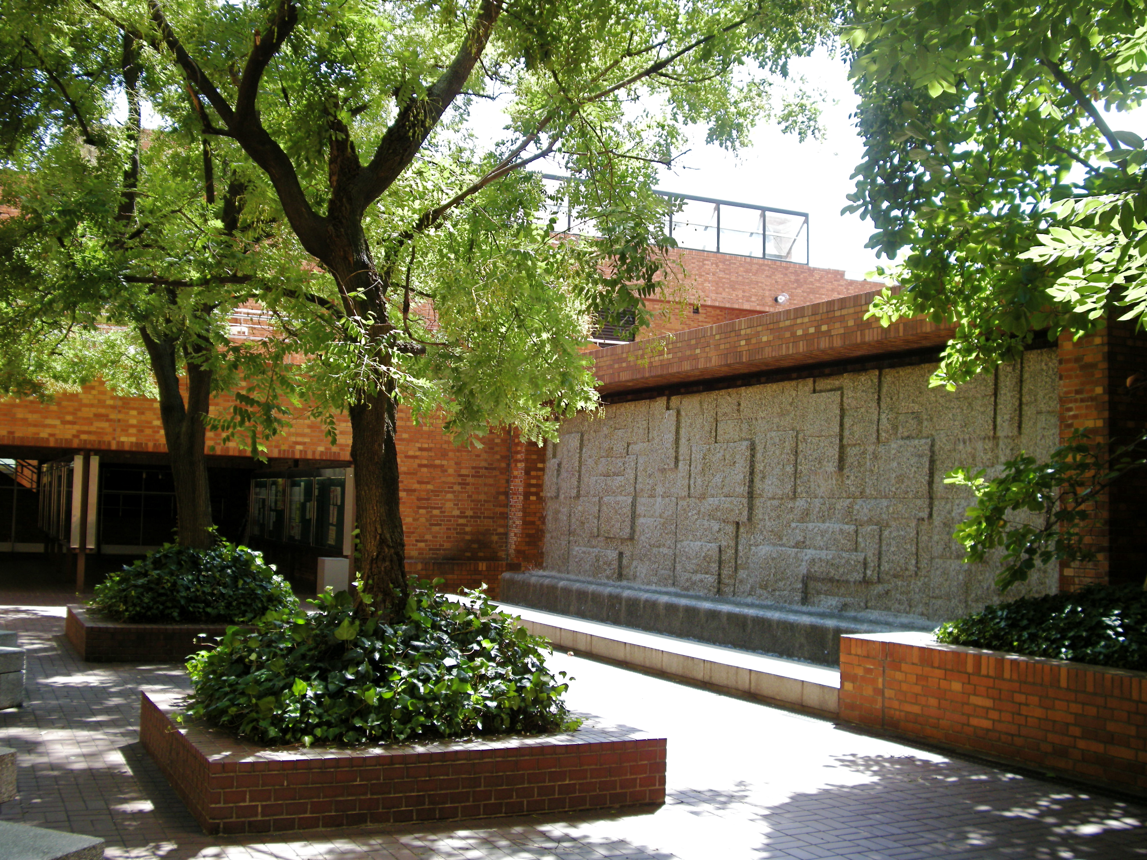 In front of Cafeteria at Osaka Gakuin University (Osaka, Japan)